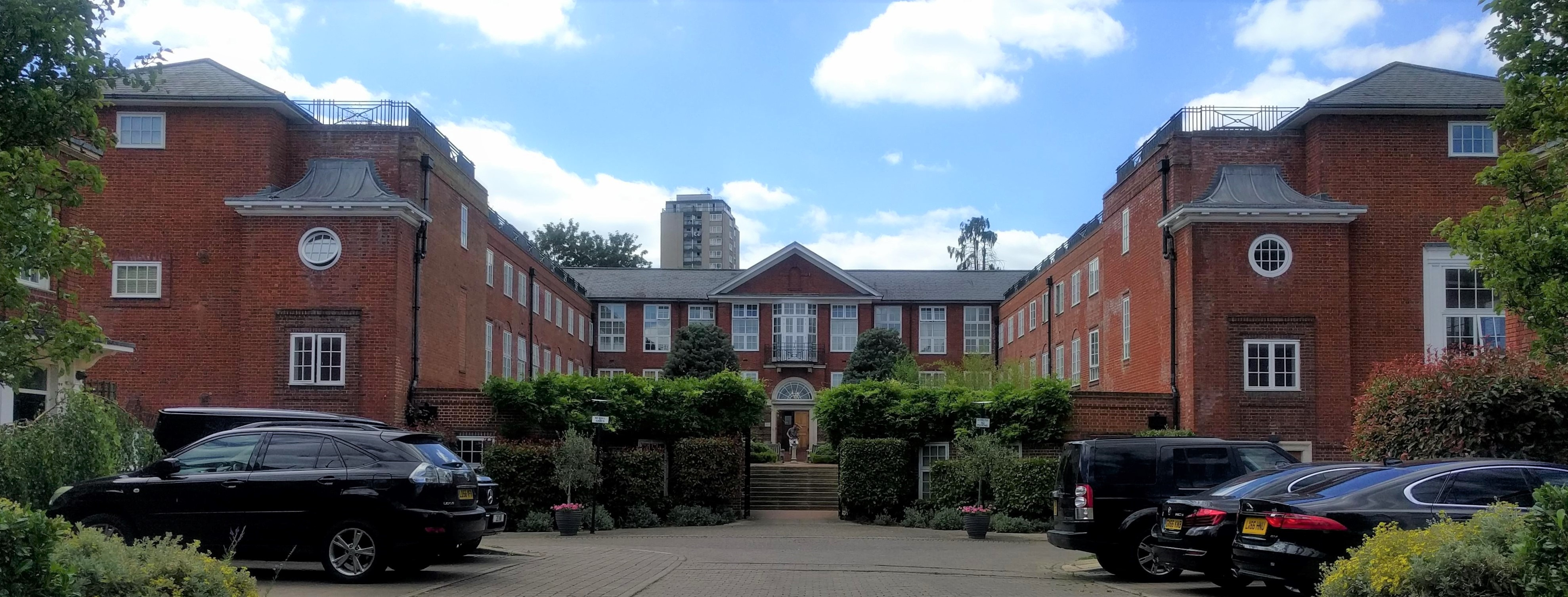 Original 1927 Wandsworth School building in 2019, after conversion to flats. Southfields, London, SW18 5JF. England